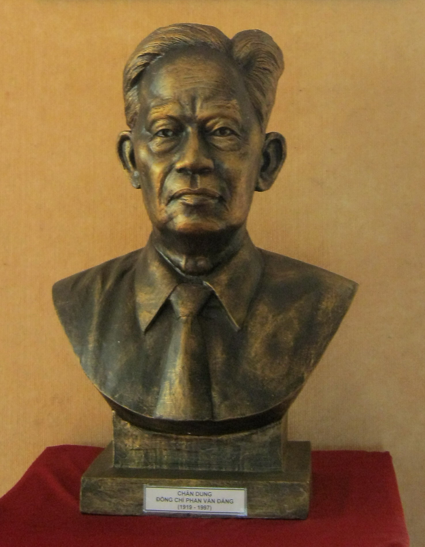 Statue of Phan Van Dang (Revolutionary History Museum of Vinh Long, Vietnam).